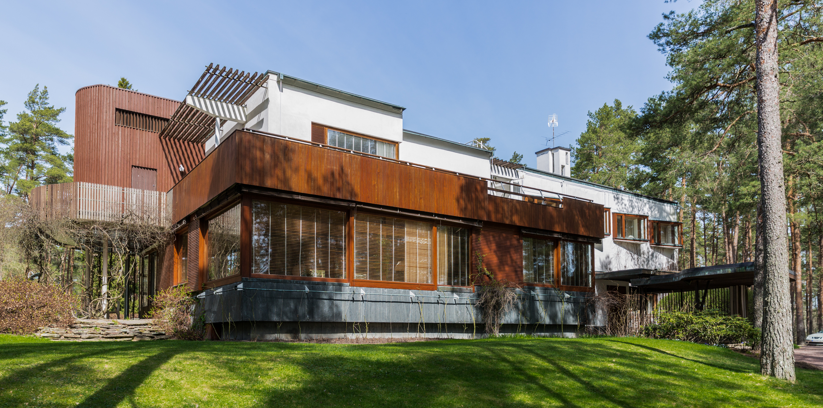 Villa Mairea, Noormarkku, Finland Wikipedia: Villa Mairea is a villa, guest-house, and rural retreat designed and built by the Finnish modernist architect Alvar Aalto for Harry and Maire Gullichsen in Noormarkku, Finland. The building was constructed in 1938–1939. The Gullichsens were a wealthy couple and members of the Ahlström family. They told Aalto that he should regard it as 'an experimental house'. Aalto seems to have treated the house as an opportunity to bring together all the themes that had been preoccupying him in his work to that point but had not been able to include them in actual buildings. Today, Villa Mairea is considered one of the most important buildings Aalto designed in his career.